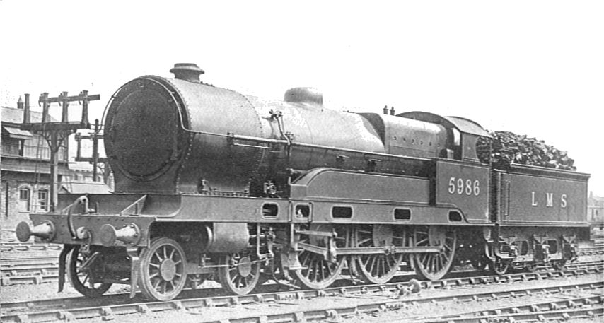 Symmetry in Locomotive Outline No.5986 of the Enlarged "Claughton" Class, LMSR ex-LNWR Claughton Class 5986, with later enlarged boiler